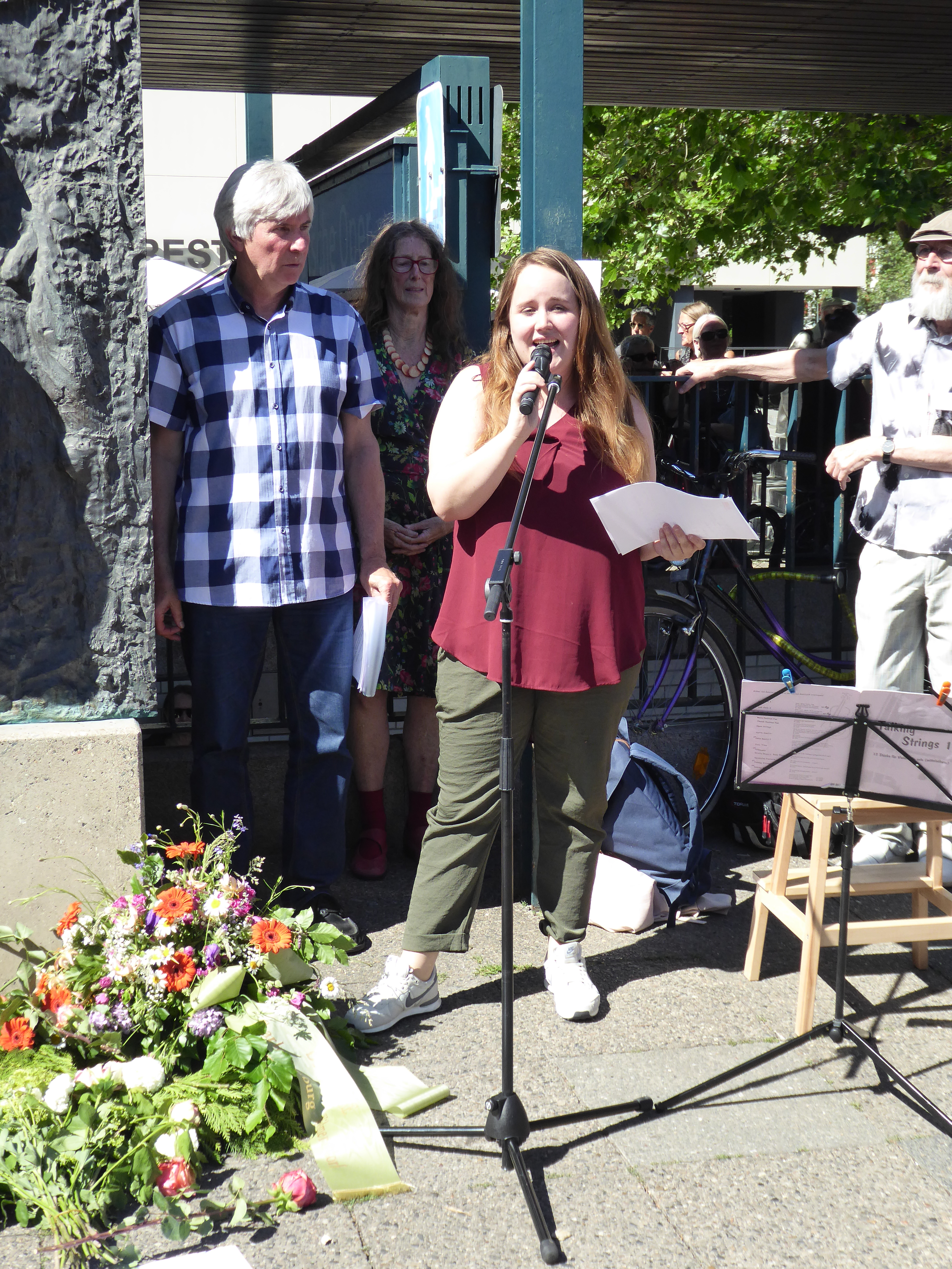 Ricarda Lang, Beisitzerin der Grünen Jugend bei der Gedenkveranstaltung zum Tod von Benno Ohnesorg